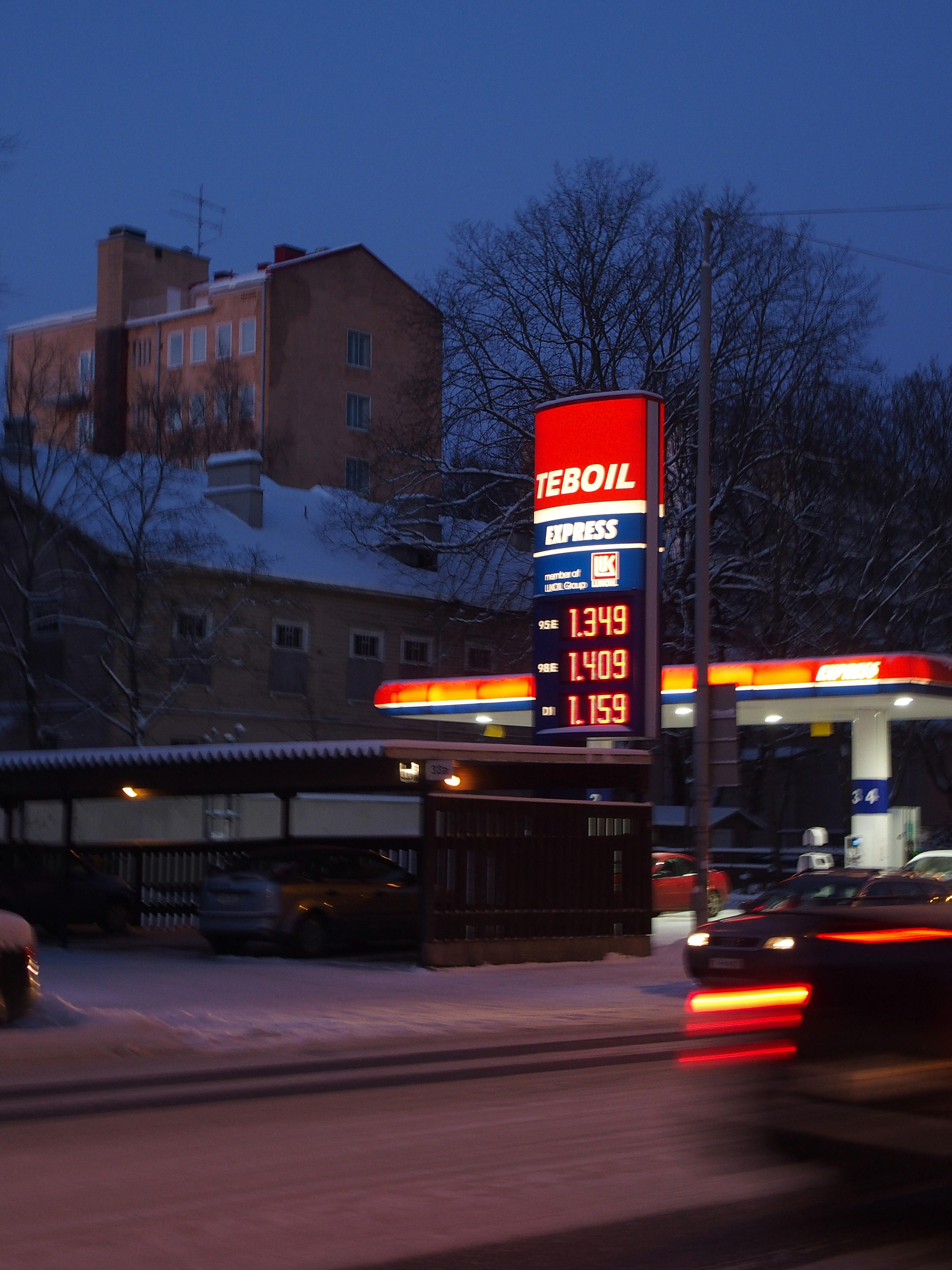 Teboil Express self-service petrol station, Itäinen Pitkäkatu, Turku, Finland.